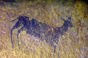 Stone Age Bushman rock painting, probably depicting Common Duiker, ca 8000 BC, on cliffs above the Palala River, midway in elevation between river and blufftop, Lapalala Wilderness, Waterberg, South Africa